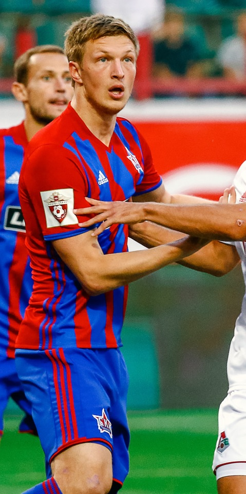 Aleksandr Putsko with FC SKA-Khabarovsk in a game against FC Lokomotiv Moscow.